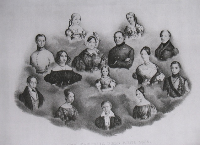 Christoph Hartung with his family, lithography by Angelo Magni, Milan